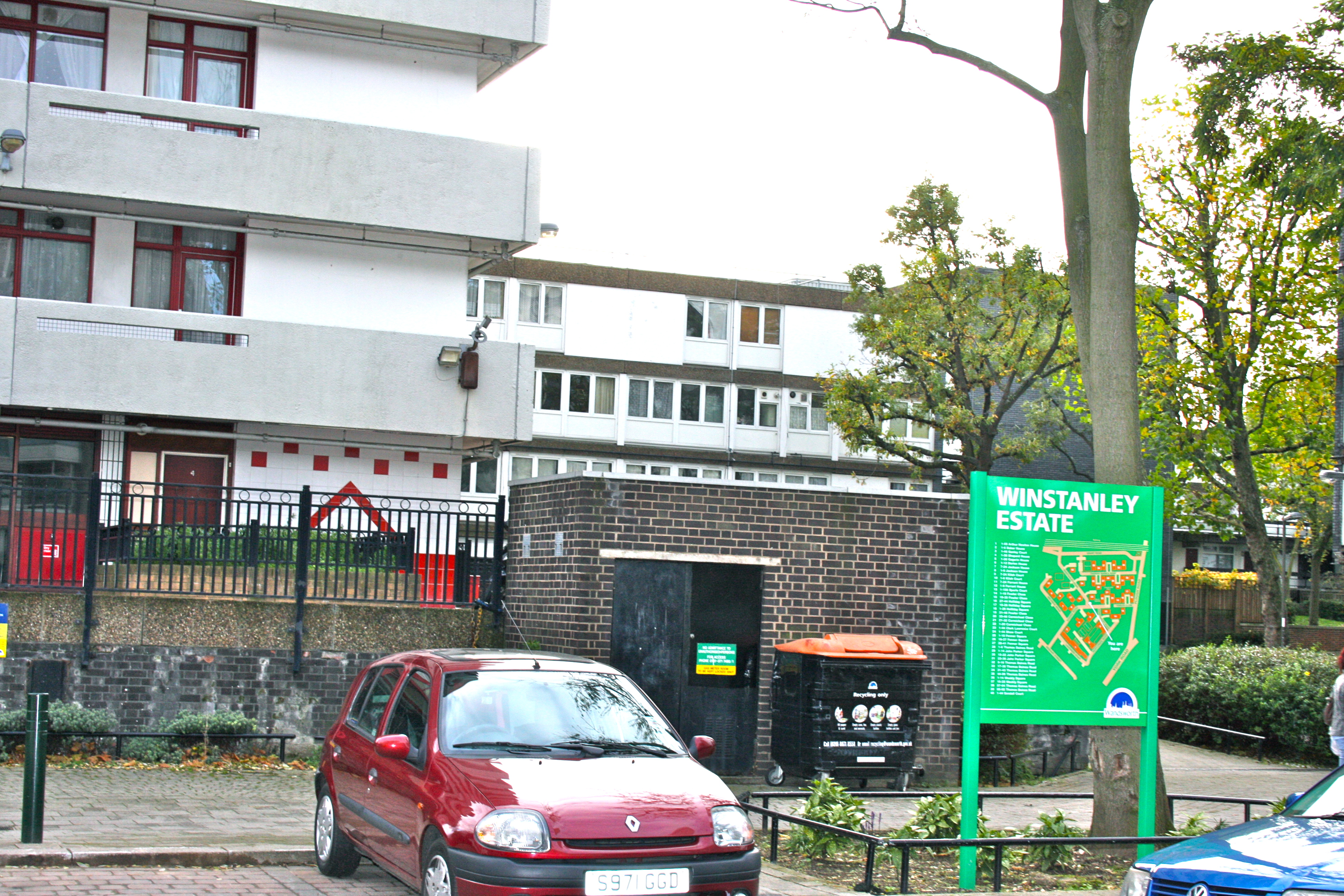 The Winstanley and York Road Estates in Battersea are due to be regenerated. These images uploaded for free use by local Labour councillor Simon Hogg